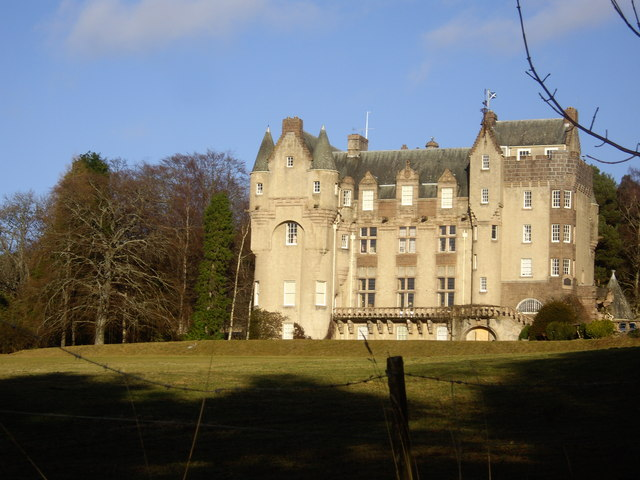 Kincardine House